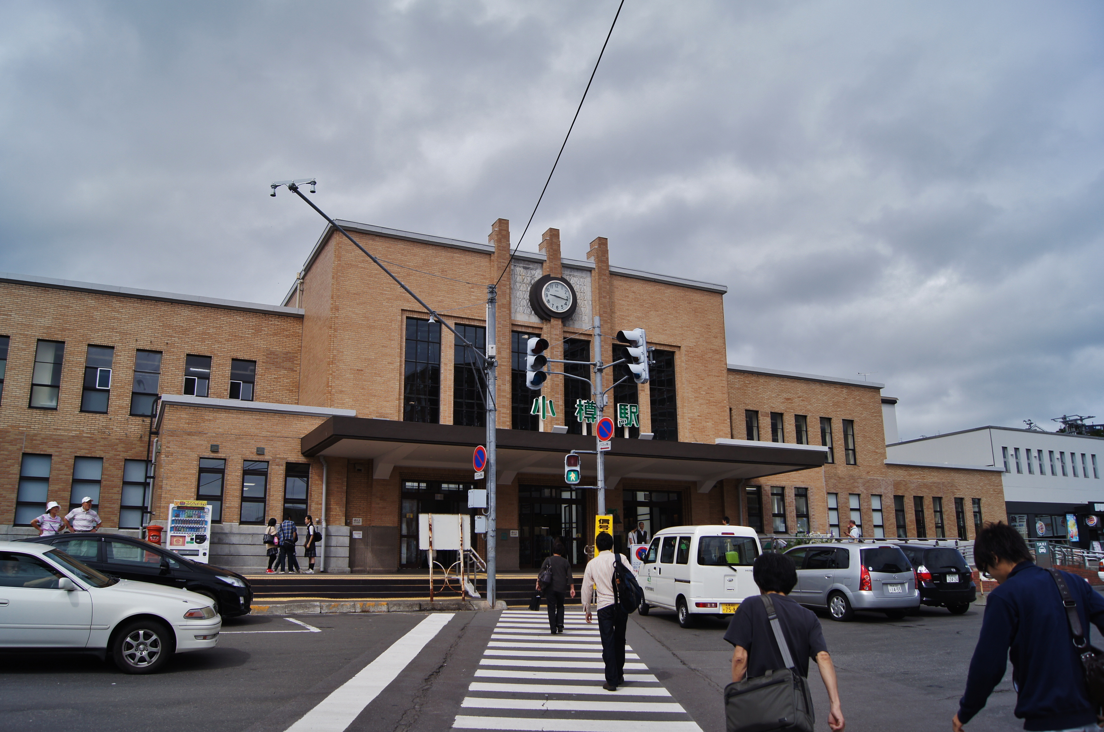 Otaru train station